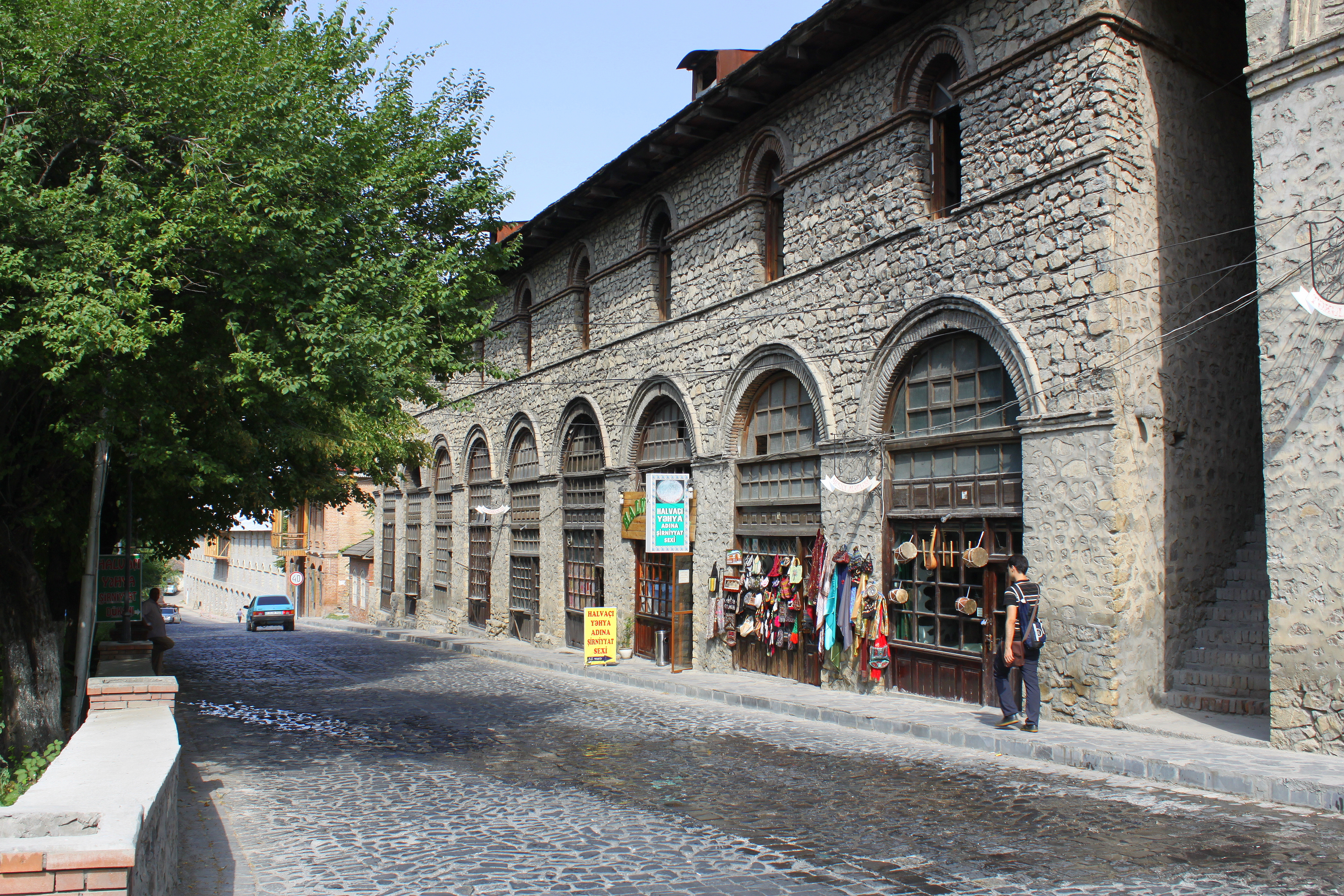 Street in Shaki.